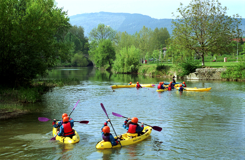 ParquefluvialArga